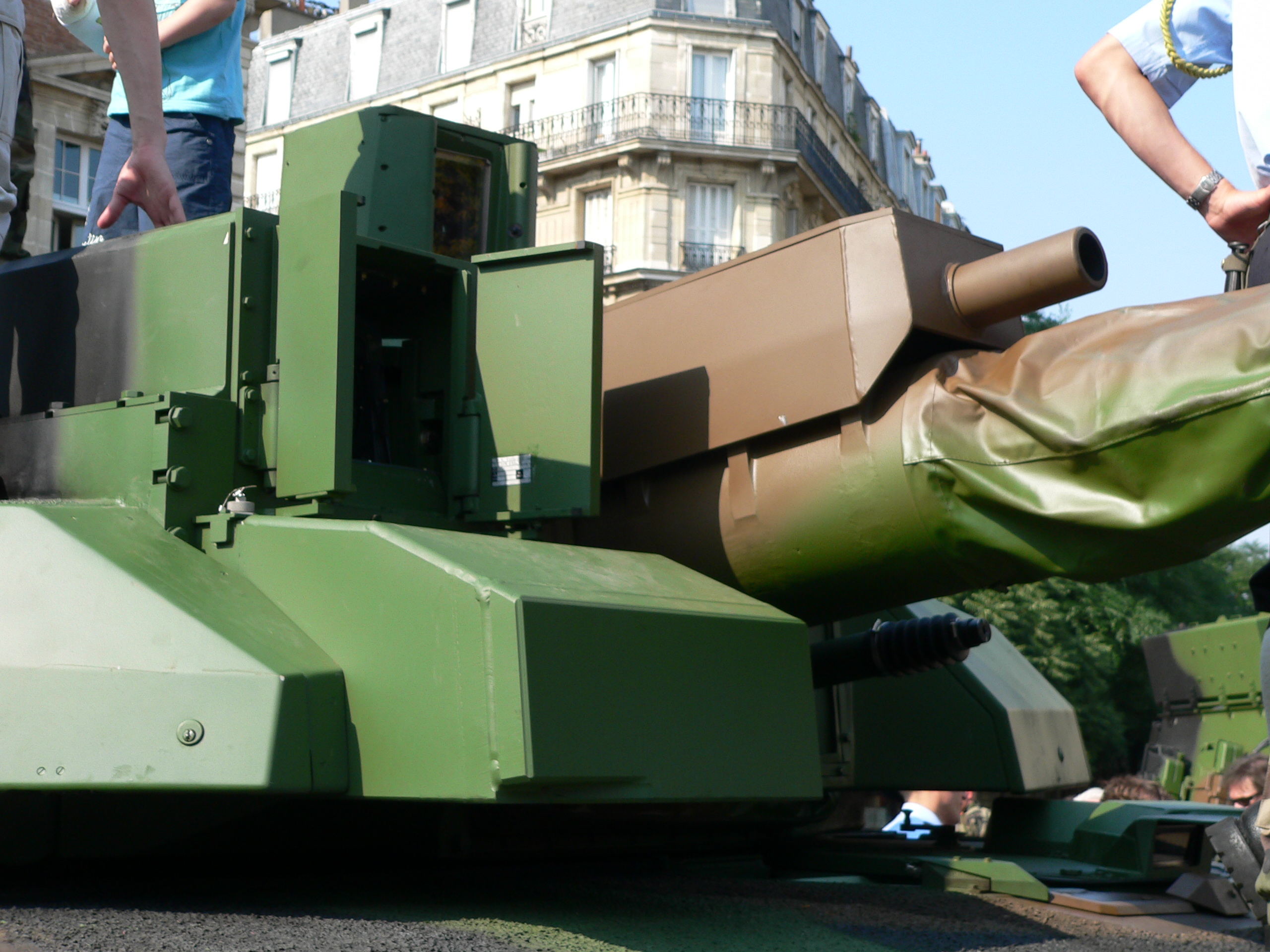 Leclerc main battle tank Military parade, Avenue des Champs-Élysées (Paris), 14 July 2006